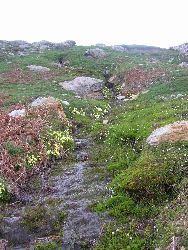 Source of a river